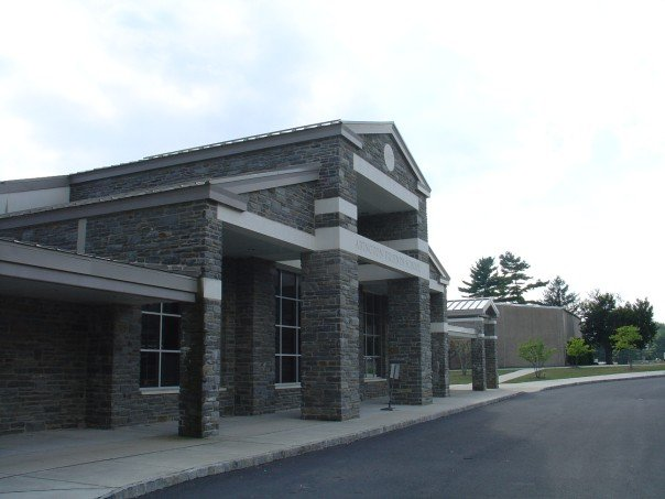 A photograph of the facade of Abington Friends School, in Jenkintown, PA.